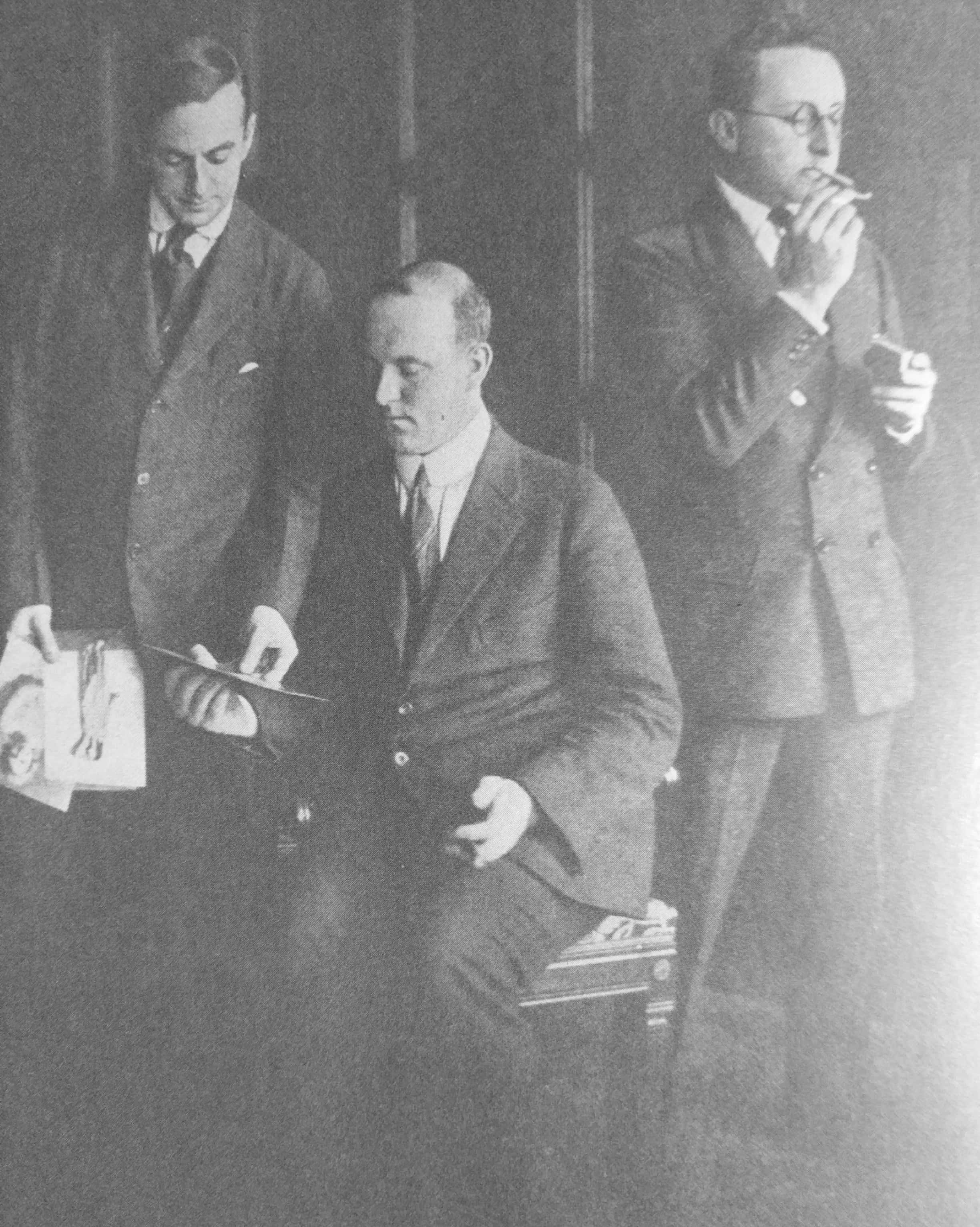 Guy Bolton, P G Wodehouse and Jerome Kern at the Princess Theatre in 1916